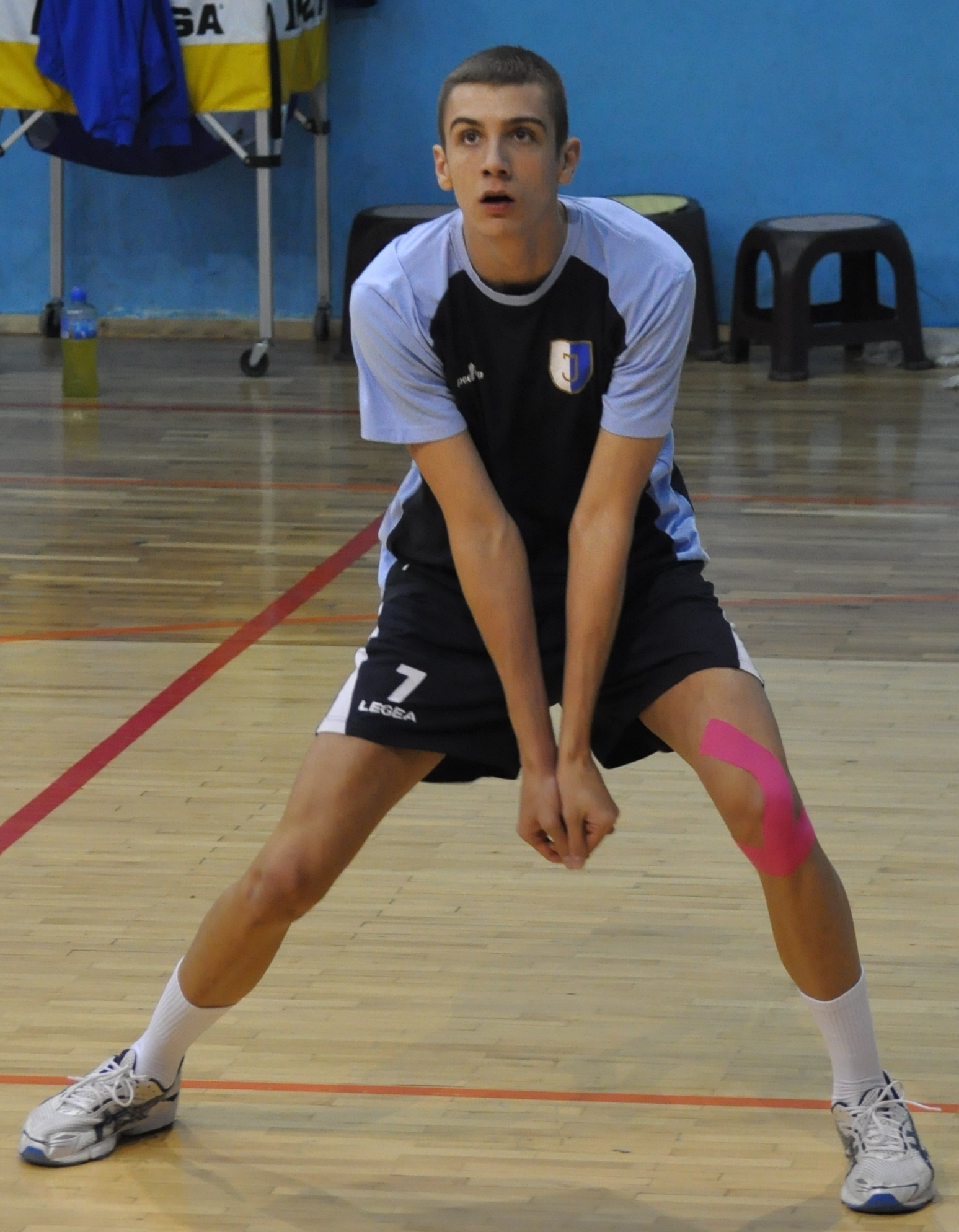 Negoslav Vuksanovic photo from match Jedinstvo Stara Pazova - Radnički Kragujevac